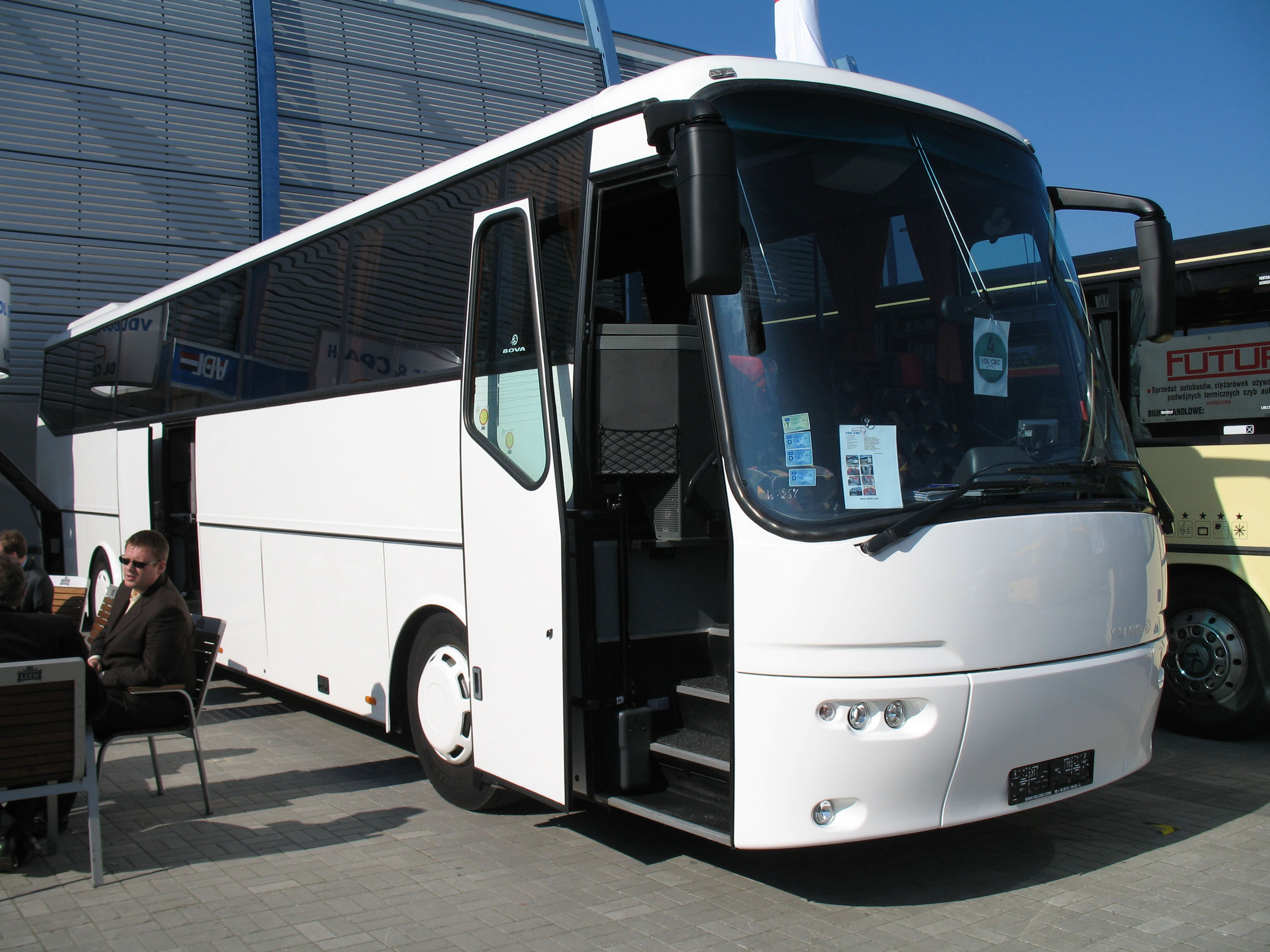 VDL Bova Futura FHD 13-380 coach in Kielce, Poland. Transexpo 2010.